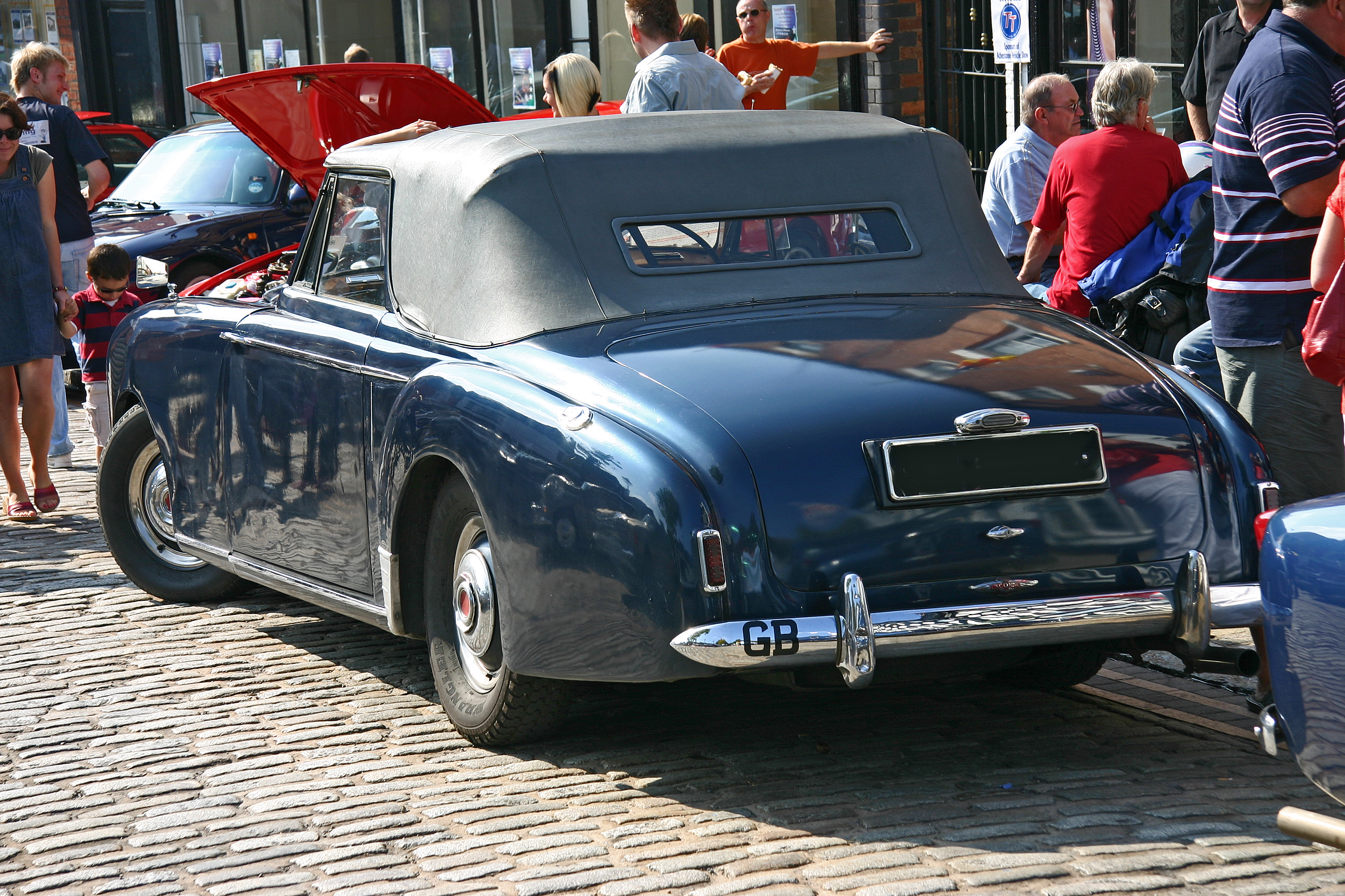 Lagonda 3-litre DHC. This Hermann Graber Drophead coupe was almost pre-production and was delivered to Peter Ustinov.